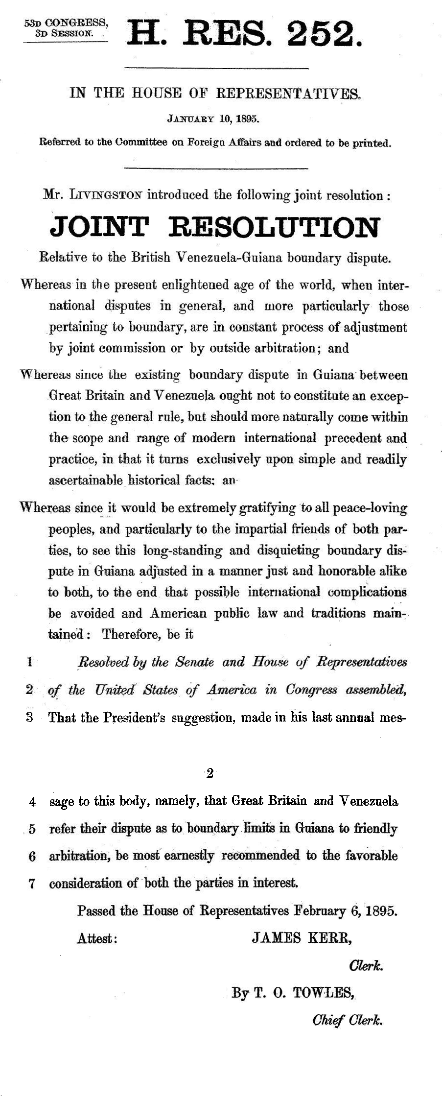 Georgia Congressman Leonidas F. Livingston of the 53rd Congress introduced House Resolution 252 urging Venezuela and Great Britain to settle their boundary dispute by arbitration on 10 January 1895. It was voted upon on 6 February 1895. President Grover Cleveland signed it into law on 20 February 1895, after passing both Houses of Congress. The vote had been unanimous.